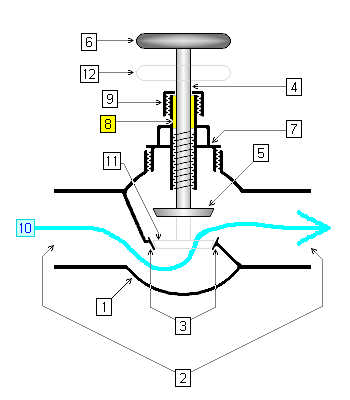 Cross-sectional diagram of an open globe valve. 1. body 2. ports 3. seat 4. stem 5. disc when valve is open 6. handle or handwheel when valve is open 7. bonnet 8. packing 9. gland nut 10. fluid flow when valve is open 11. position of disc if valve were shut 12. position of handle or handwheel if valve were shut